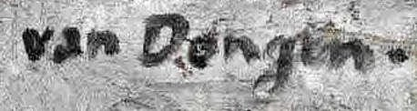 Signatures of Kees van Dongen from 1918